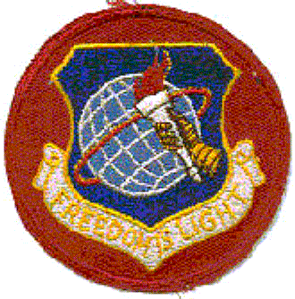 4338th Strategic Wing emblem. A copy of this emblem was downloaded from for use in my book “The Genealogy of the STRATEGIC AIR COMMAND” with the webmasters’ approval.